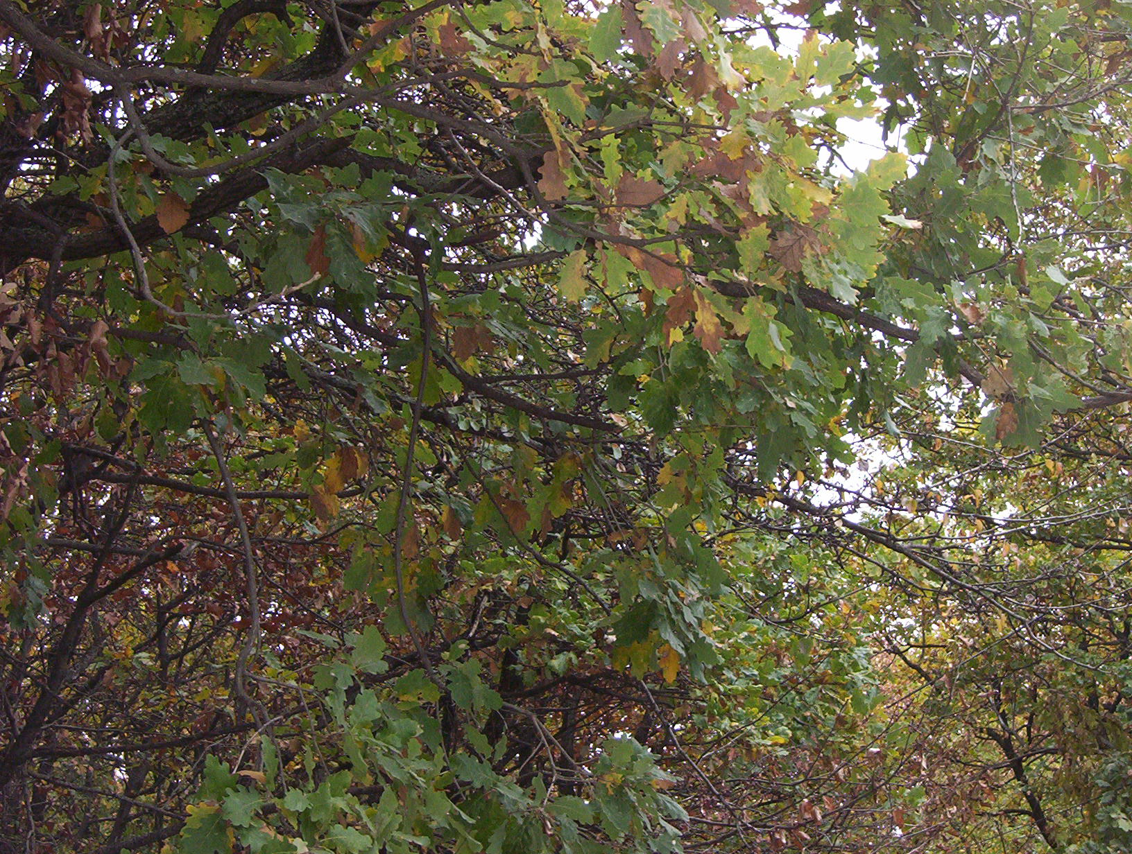 Oak leaves.